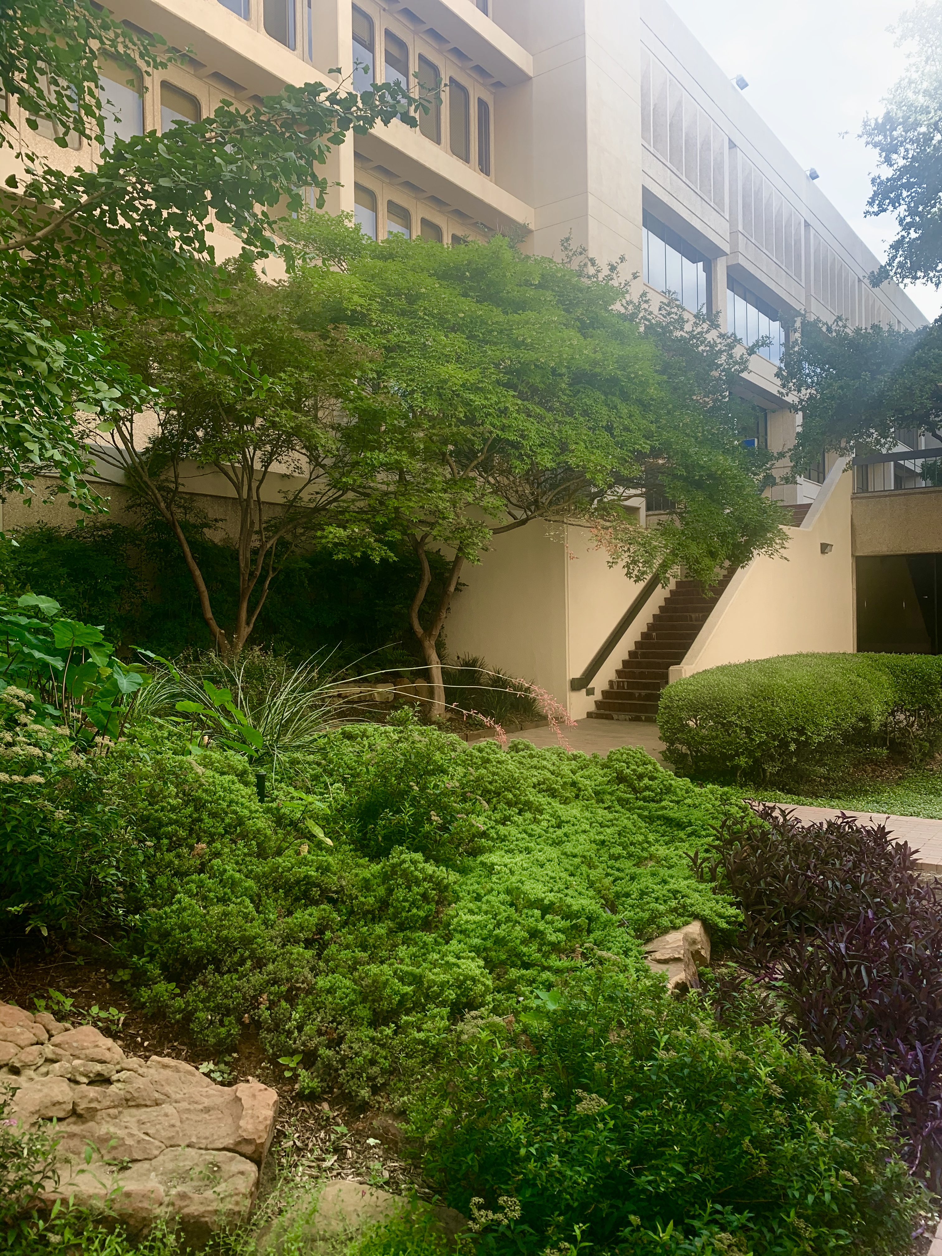 UT Southwestern Medical School